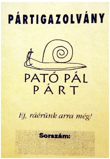 Membership card of "Pato Pal" Party